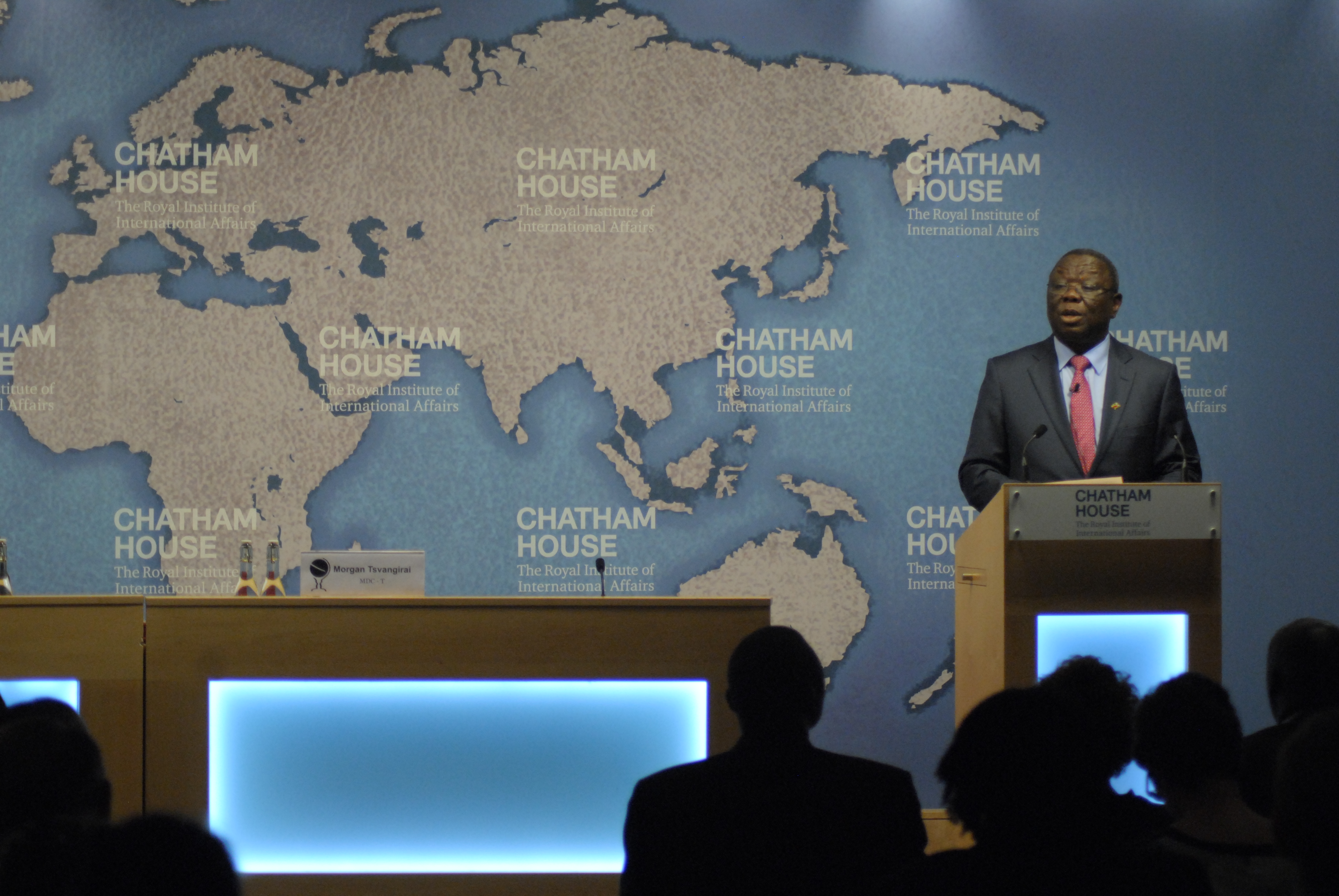 Zimbabwe After the Disputed Election: The Way Forward, 25 July 2014